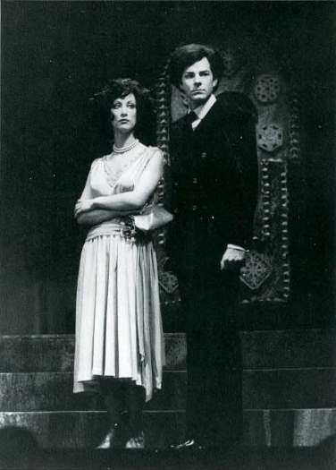 Daniela Gatti and Gabriele Carrara in a 1971 representation of Pirandello's Henry IV, in Rome